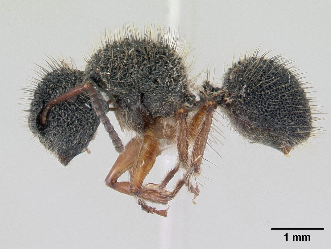 Profile view of ant Echinopla pallipes specimen casent0178847.